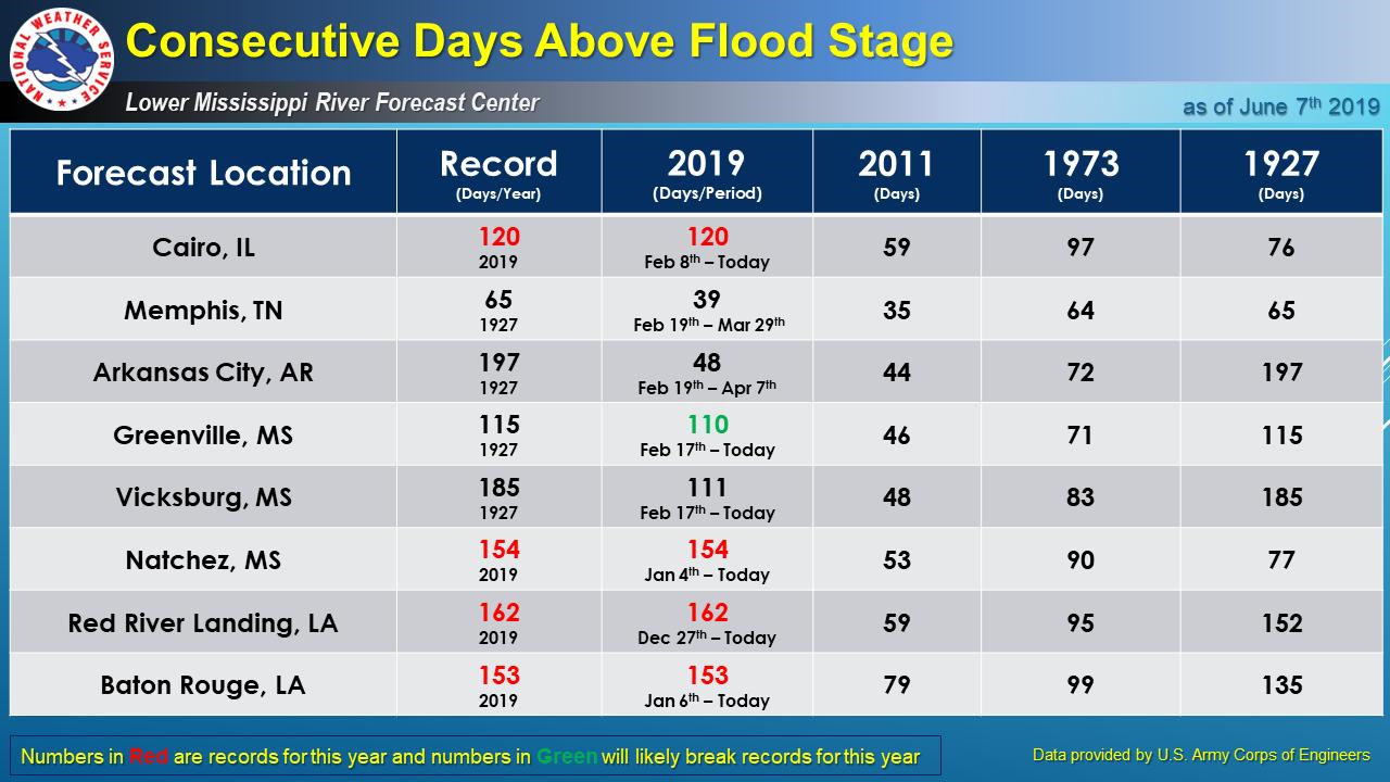 The Mississippi River Flood of 2019 is setting records for duration of flooding. As of 7 June 2019, multiple locations along the Lower Mississippi River are still above flood stage and flooding is expected to continue for weeks. A new record for consecutive days above flood stage at Greenville, Mississippi, is expected on 13 June 2019.